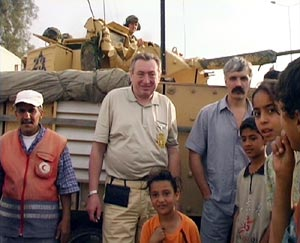 Mayor of Odessa (UA) Eduard Gurviz (left) visiting Iraq together with Dmitro Korchinskiy (right) from notorious extremist Bratstvo organization